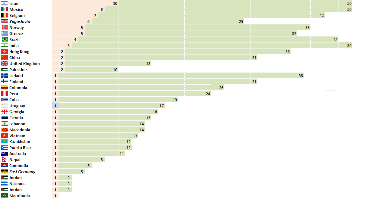 This graph shows countries ordered by number of Academy Award nominees for Best Foreign Language Film (without winners)